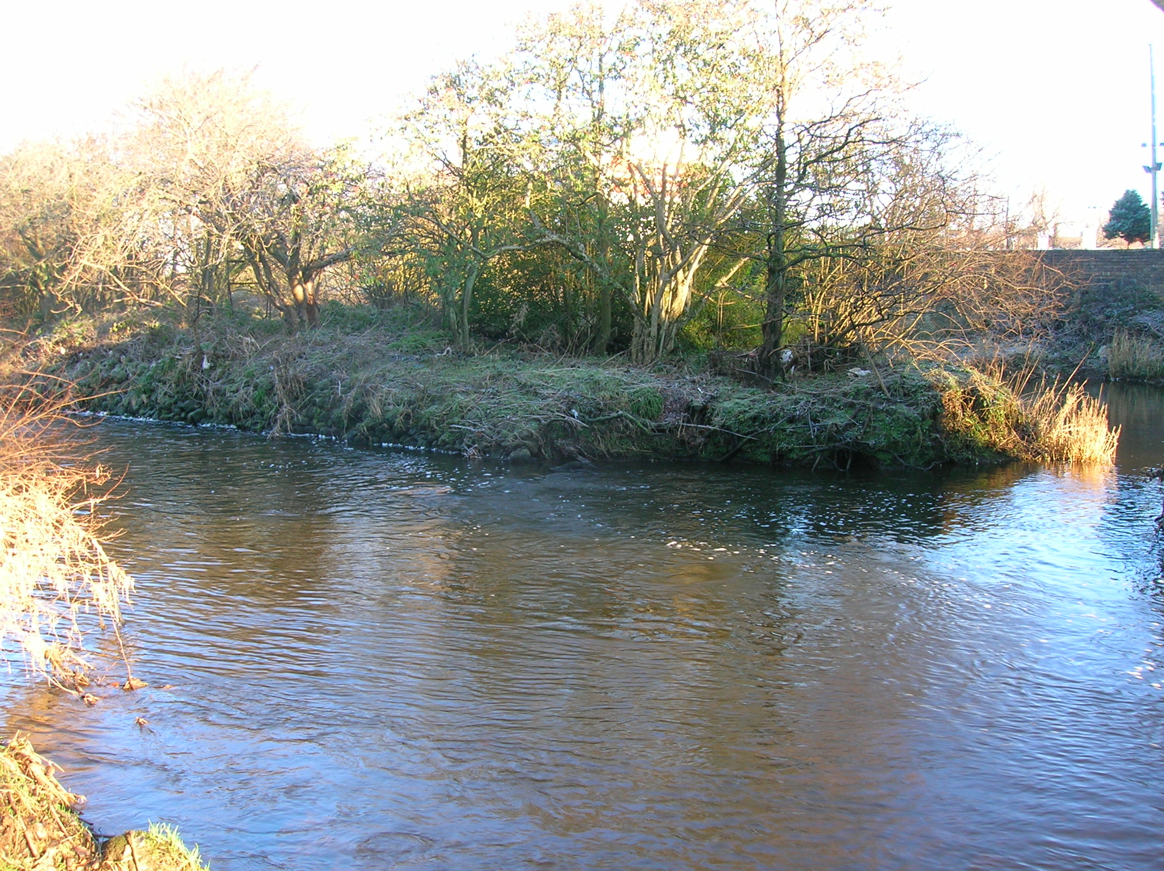 The Island in the River Garnock at Kilwinning, North Ayrshire, Scotland